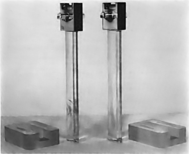 Photo of quartz gravimeter pendulums used in the gravimeter instrument designed by Gulf Research and Development Co. in 1929. Accurate to less than 1 milligal, the Gulf instrument was the most accurate commercial gravimeter into the 1950s. The pendulums are 10.7 inches long and had a period of about 0.89 sec. They were mounted in a sealed vacuum tank and swung synchronized, 180° out of phase, to cancel out swaying of the support. Fused quartz was used because of its small thermal expansion, but stray electrostatic charges on the pendulums had to be removed by exposure to a radioactive salt before use. Alterations to image: removed aliasing artifacts (striped lines) from scanning of original halftone image using GREYCstoration filter in Gimp.